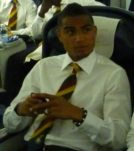 Kevin Prince Boateng